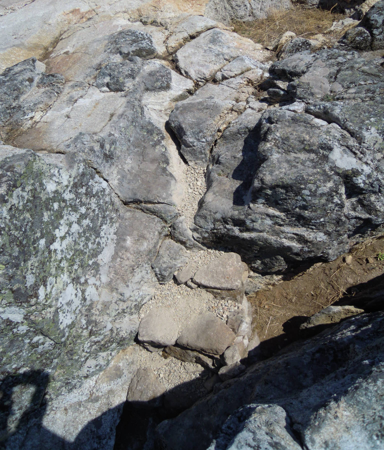 Entrance to the San Victor de Barxacova chapel (Parada de Sil, Galicia, Spain) in excavation process.